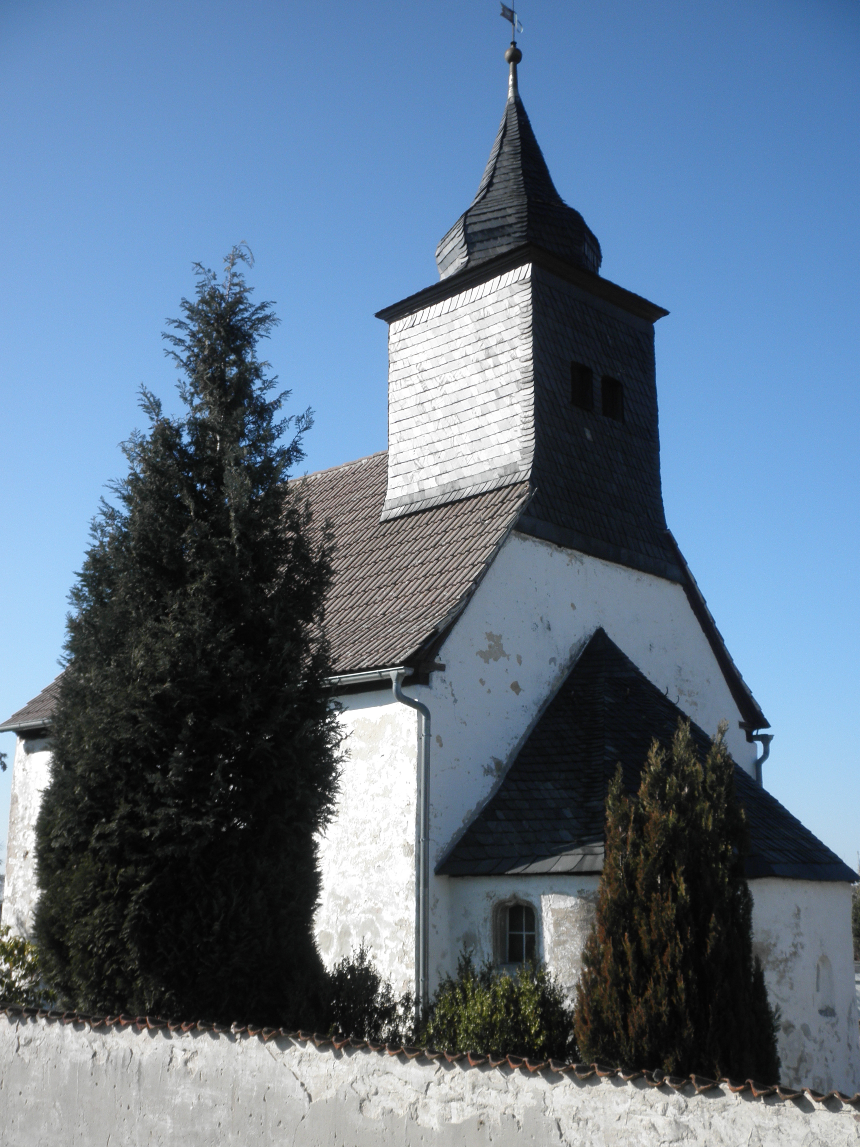 Church in Quaschwitz in Thuringia